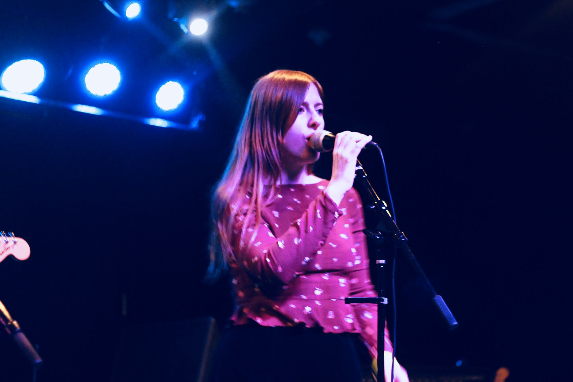 Molly Burch performing in 2018